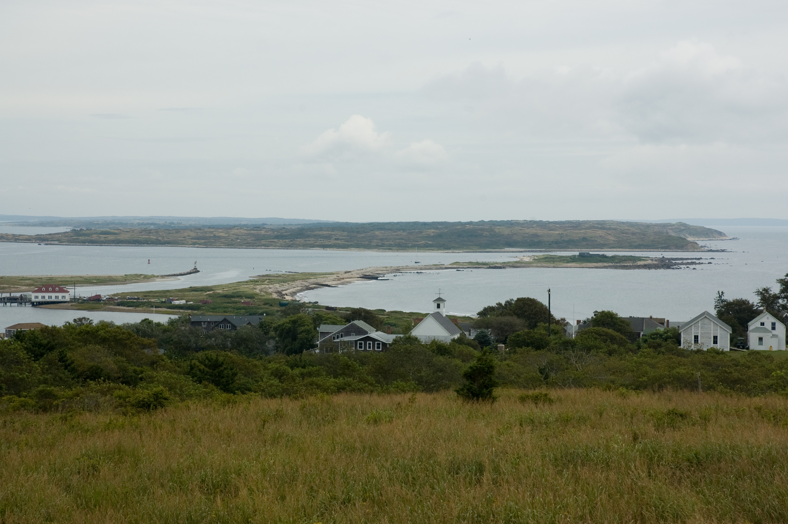 View of Cuttyhunk Island, Gosnold, Massachusetts